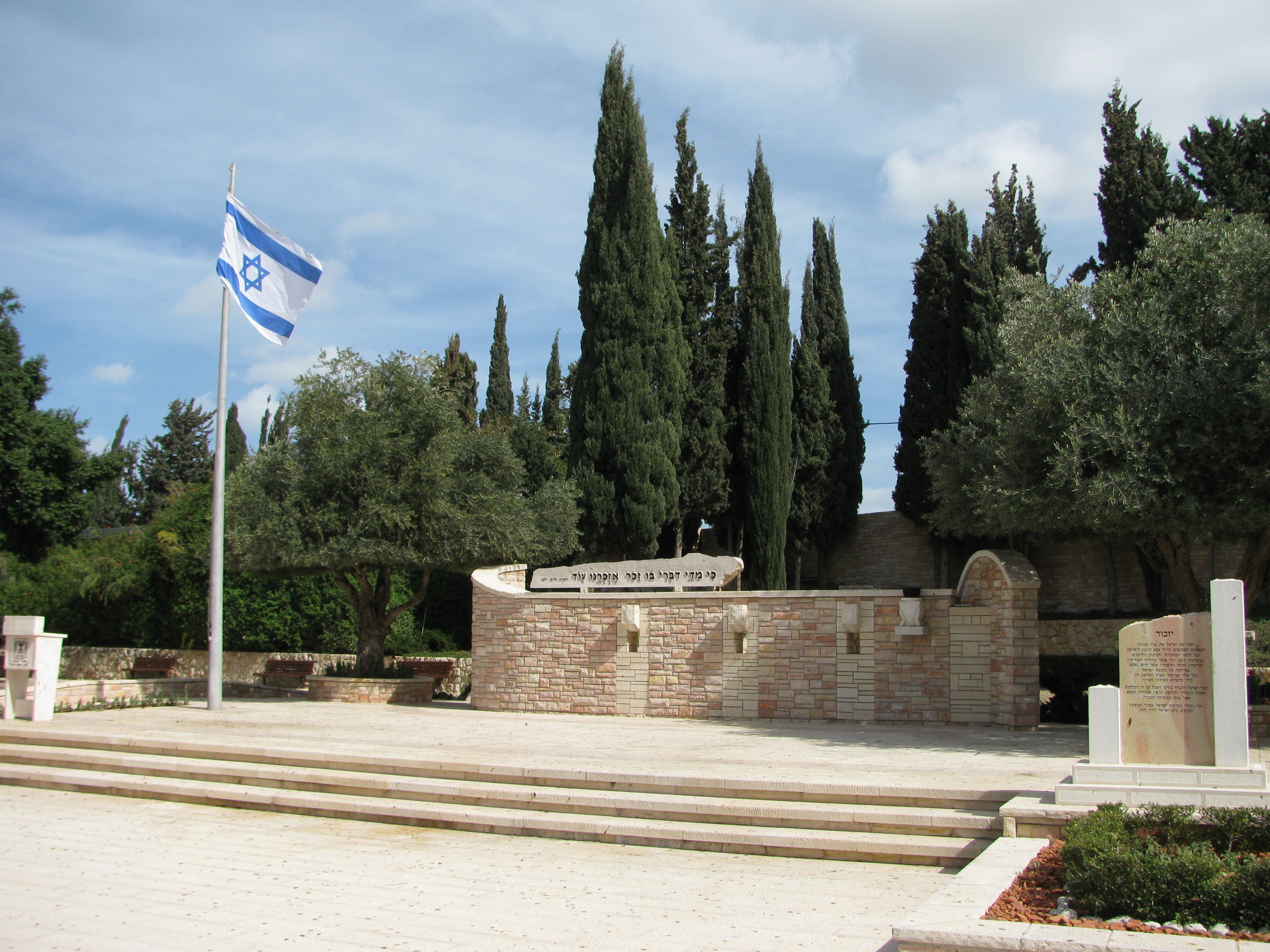 Kiryat Shaul cemetery in Tel Aviv, the military plot